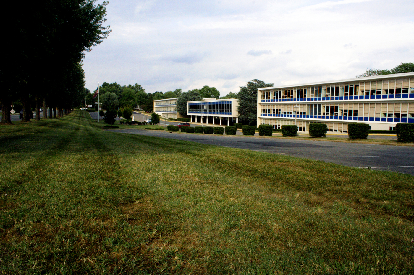 the corner of North Underwood St. and Little Falls Rd.]).